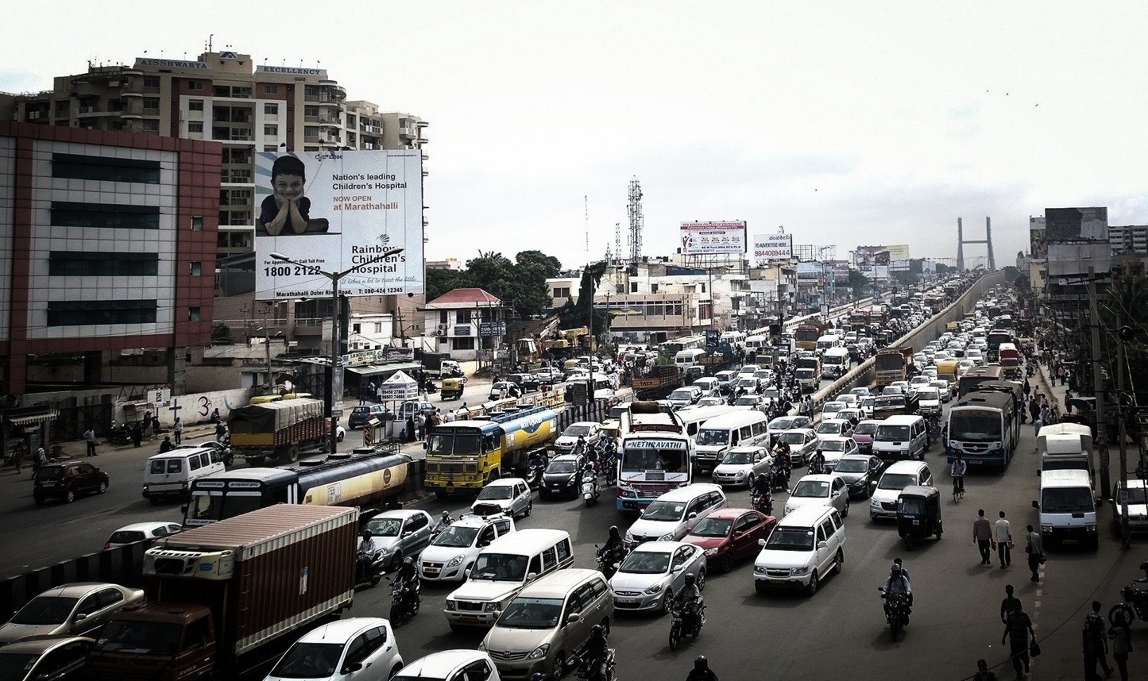 This shows daily life of Bangalore.Picture is of a peak hour in ring road of Bangalore.